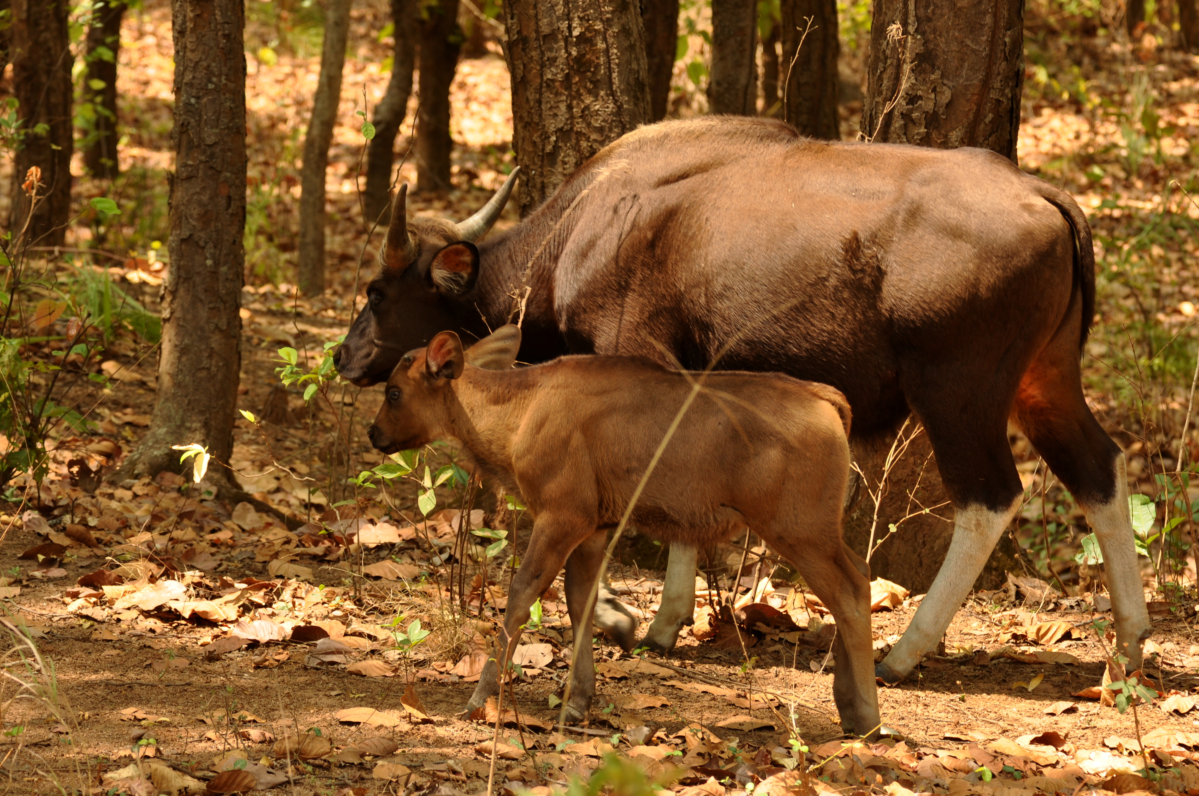 A gaur Bos gaurus female with brown calf in Kanha, Central India